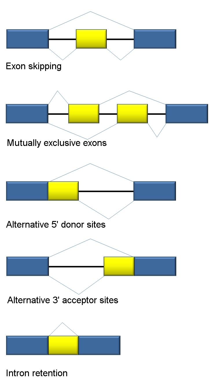 Collection of basic alternative RNA splicing events